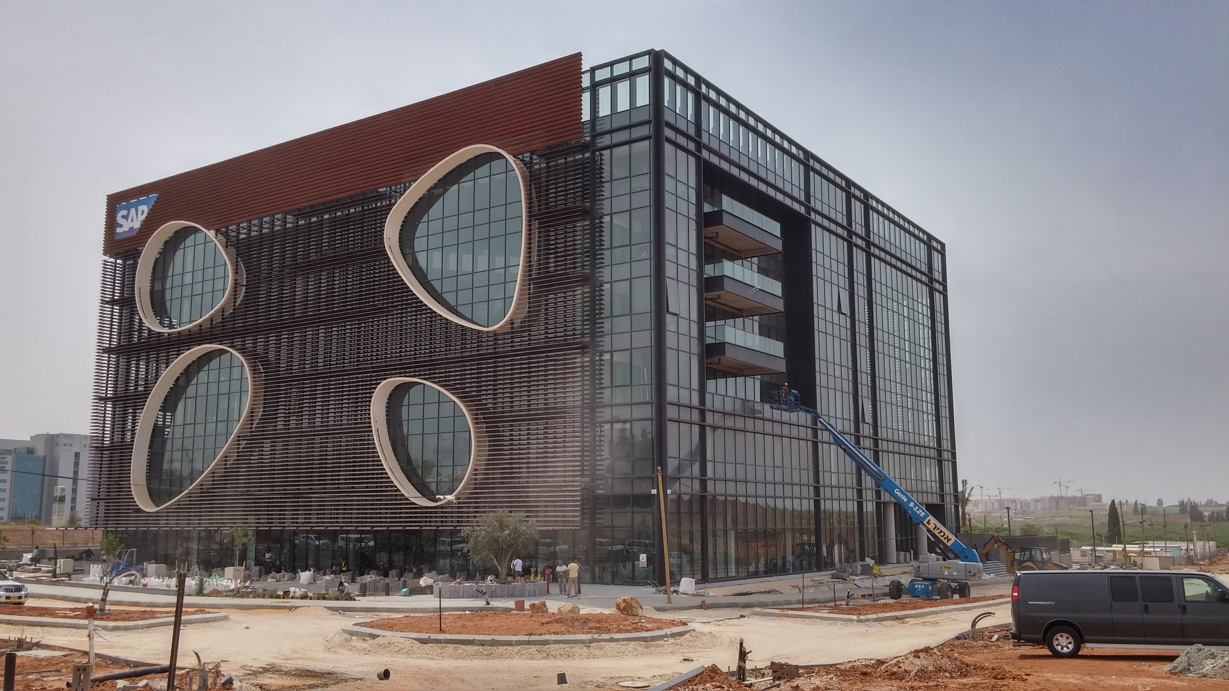 SAP building Raanana